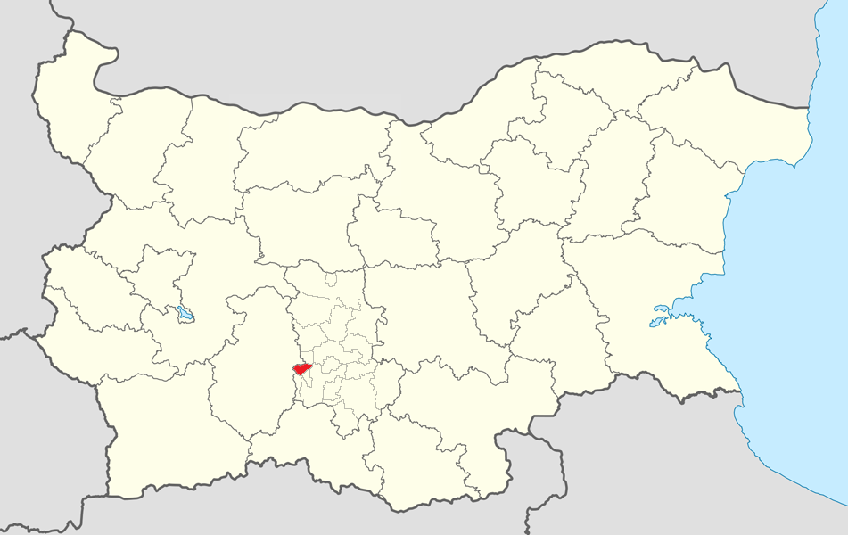 Location map of Stamboliyski Municipality within Bulgaria and Plovdiv province